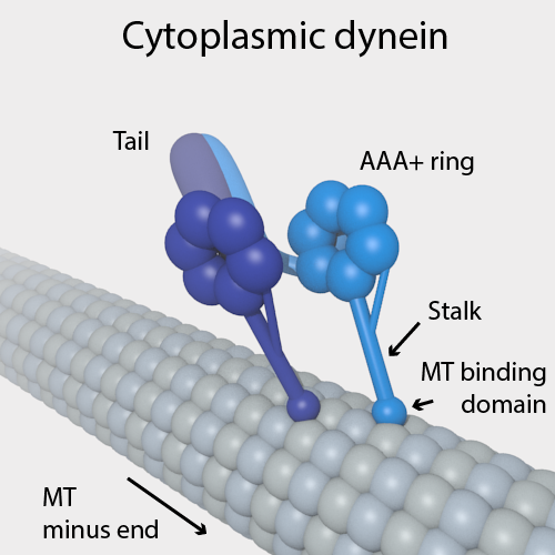 An illustration of a dimer of cytoplasmic dynein heavy chains (DHC's) bound to a microtubule.